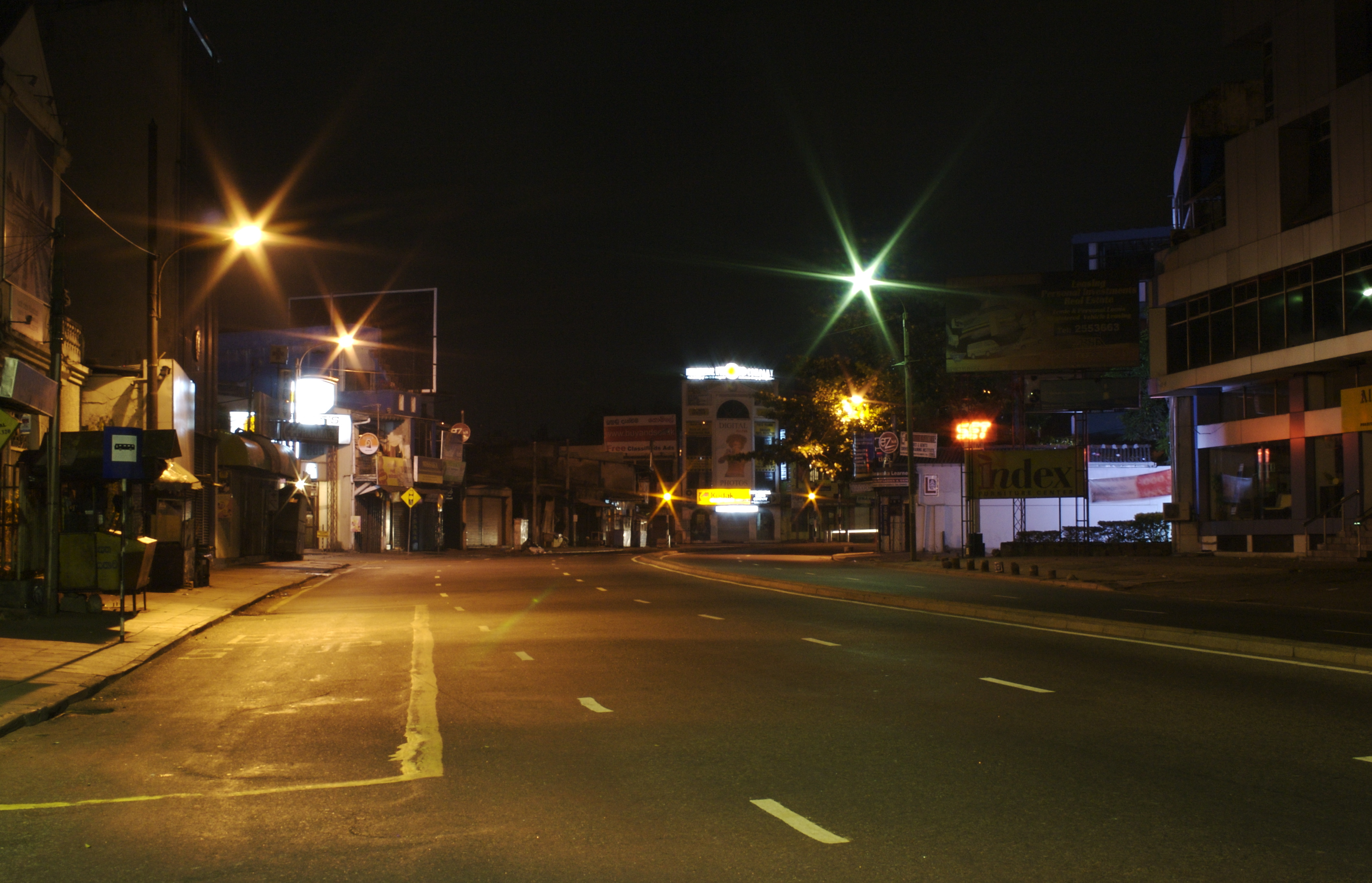 Thimbirigasyaya junction by night, 2007